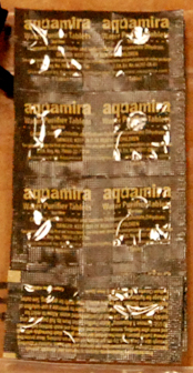 Iodine tablets ("aquamira") used for water purification.